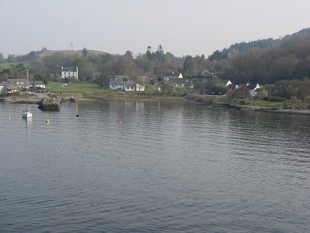 South end of Craignure, Isle of Mull